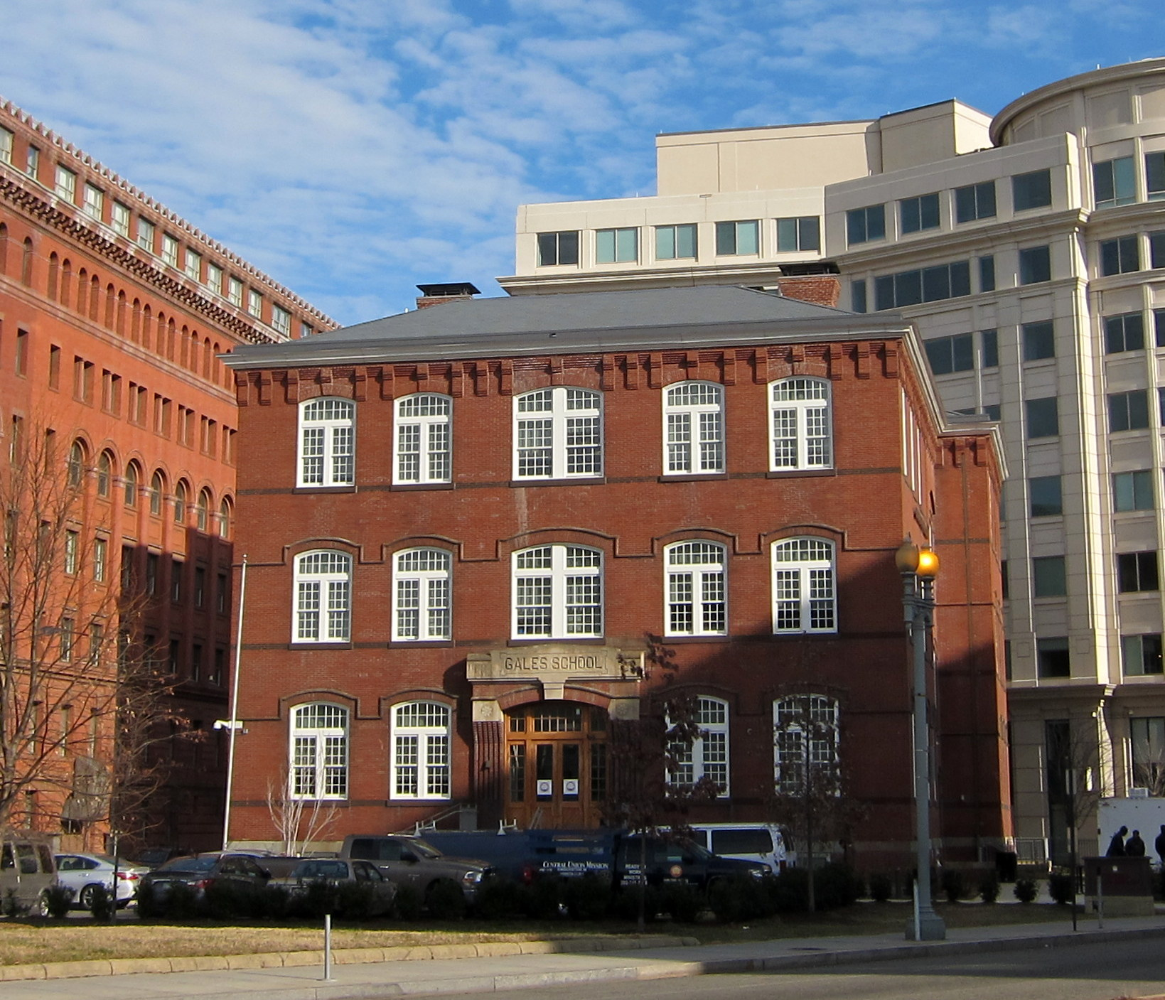 The Gales School building is located at 65 Massachusetts Avenue NW in Washington, D.C. The building was constructed in 1881 and named after the ninth mayor of Washington, Joseph Gales, Jr. It was added to the District of Columbia Inventory of Historic Sites on May 23, 2002. The building underwent an extensive renovation and has housed the Central Union Mission since 2012.